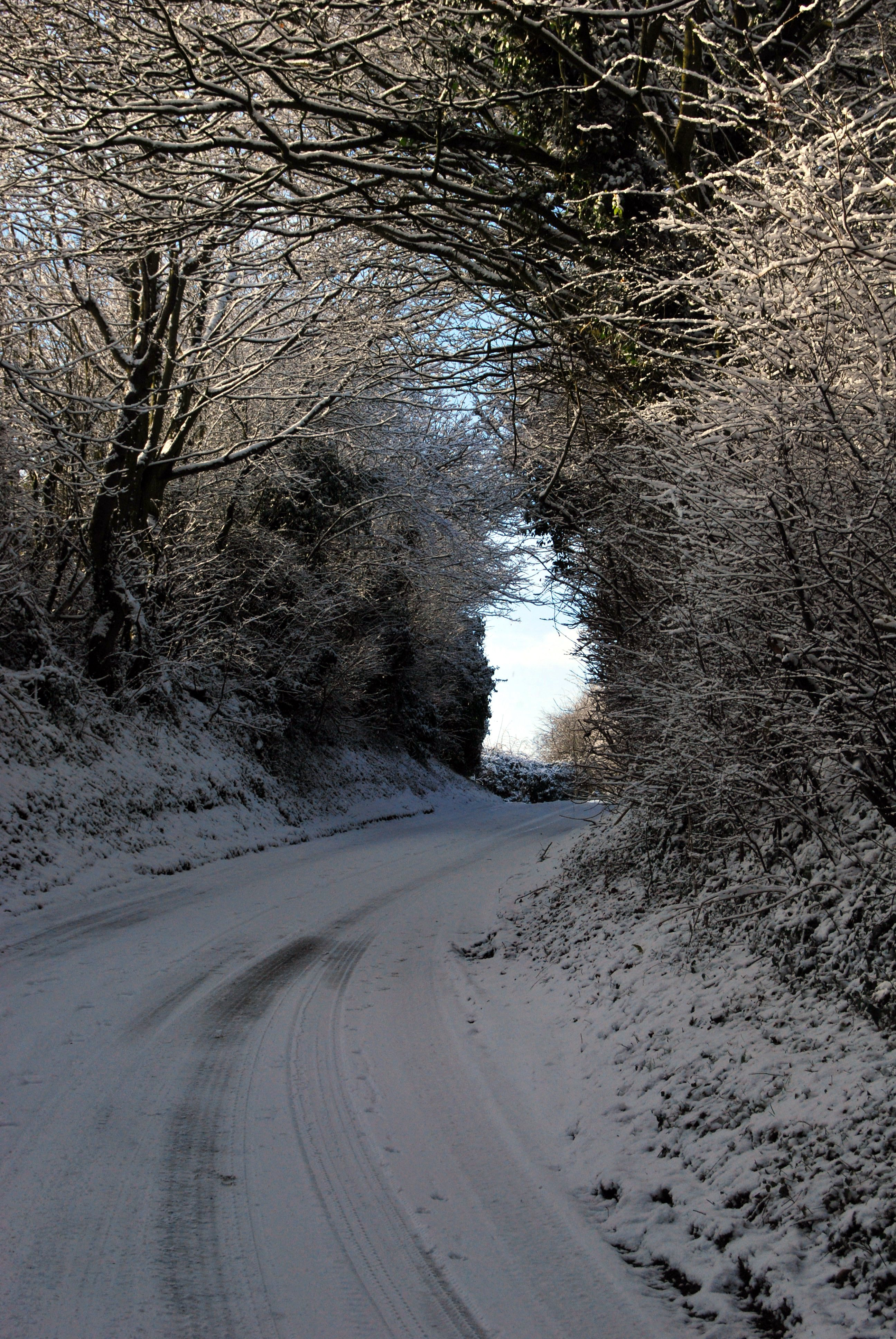 The pretty lane approaching Clipston on the Wolds from the north.